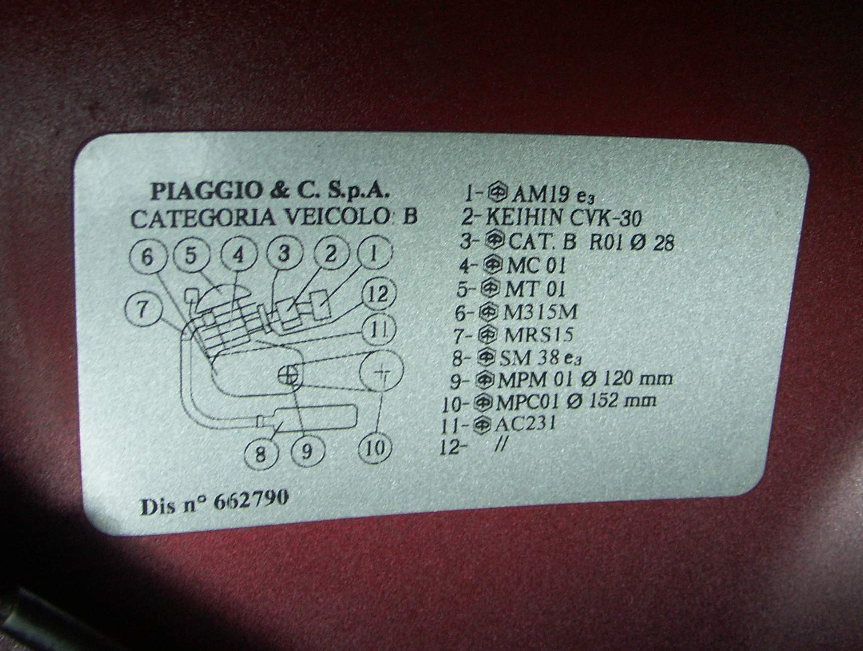 anti manipulation sticker of a Vespa GTS 125